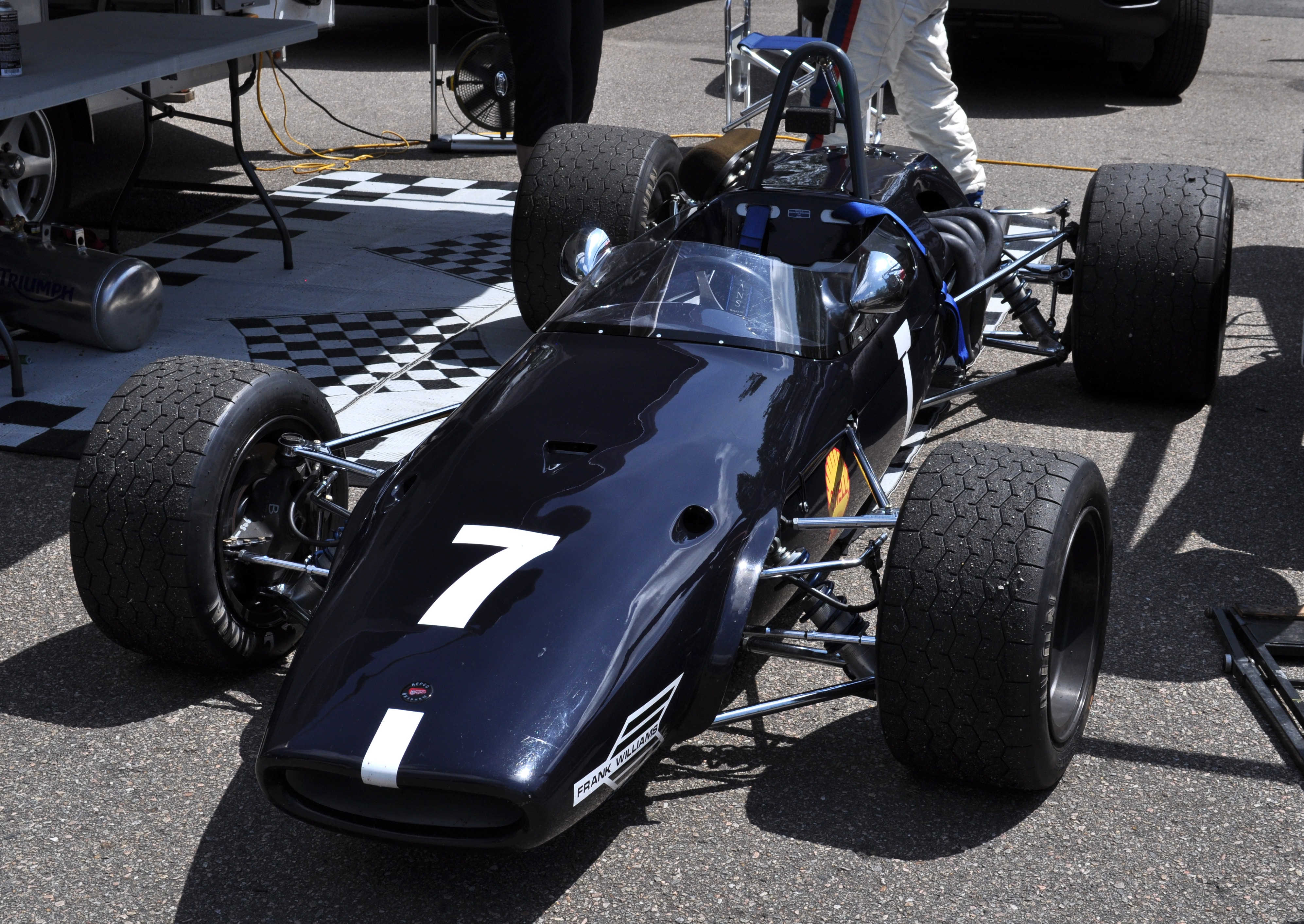 An ex-Frank Williams Racing Cars Brabham BT23C Formula Two racing car, driven by Piers Courage in period, in the paddock at Circuit Mont-Tremblant during the 2010 Legends of Motorsport meeting.